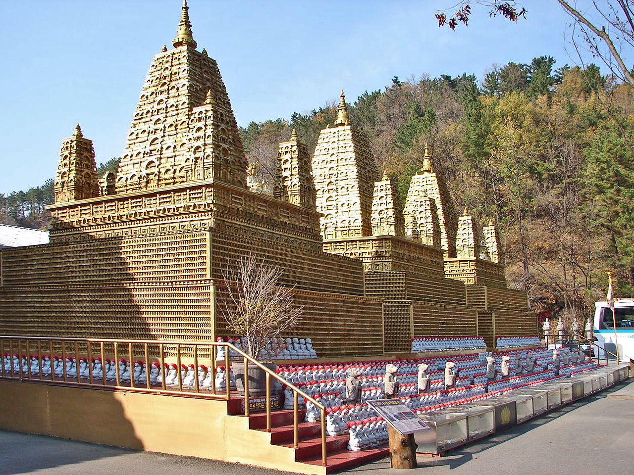 Great Lantern Tower at Manbulsa is a downsized replica of the tower Buddhagahya, India. After dark the tower is illuminated by 15,000 individual lamps. Manbulsa (Ten Thousand Buddhas Temple), in the Manbul Mountains, is a Buddhist Temple that has considerably more than Ten Thousand Buddhas represented throughout this new sprawling temple complex.